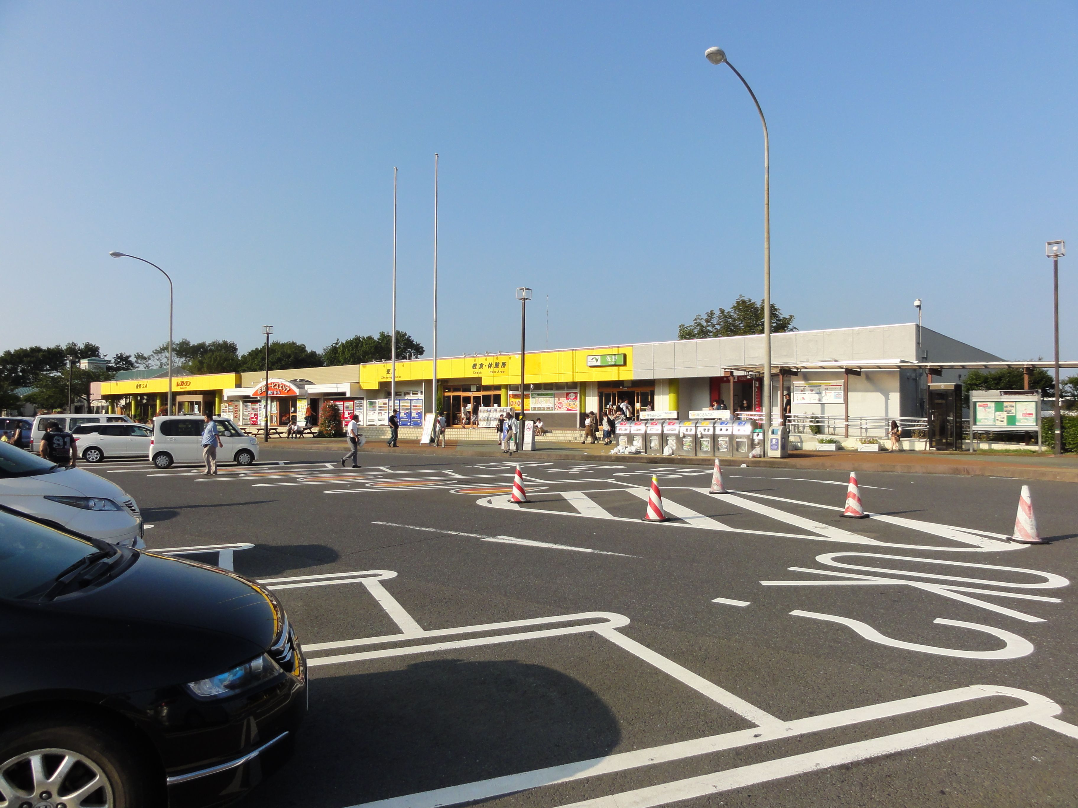 Sano Service Area on the Tohoku Expressway for Tokyo